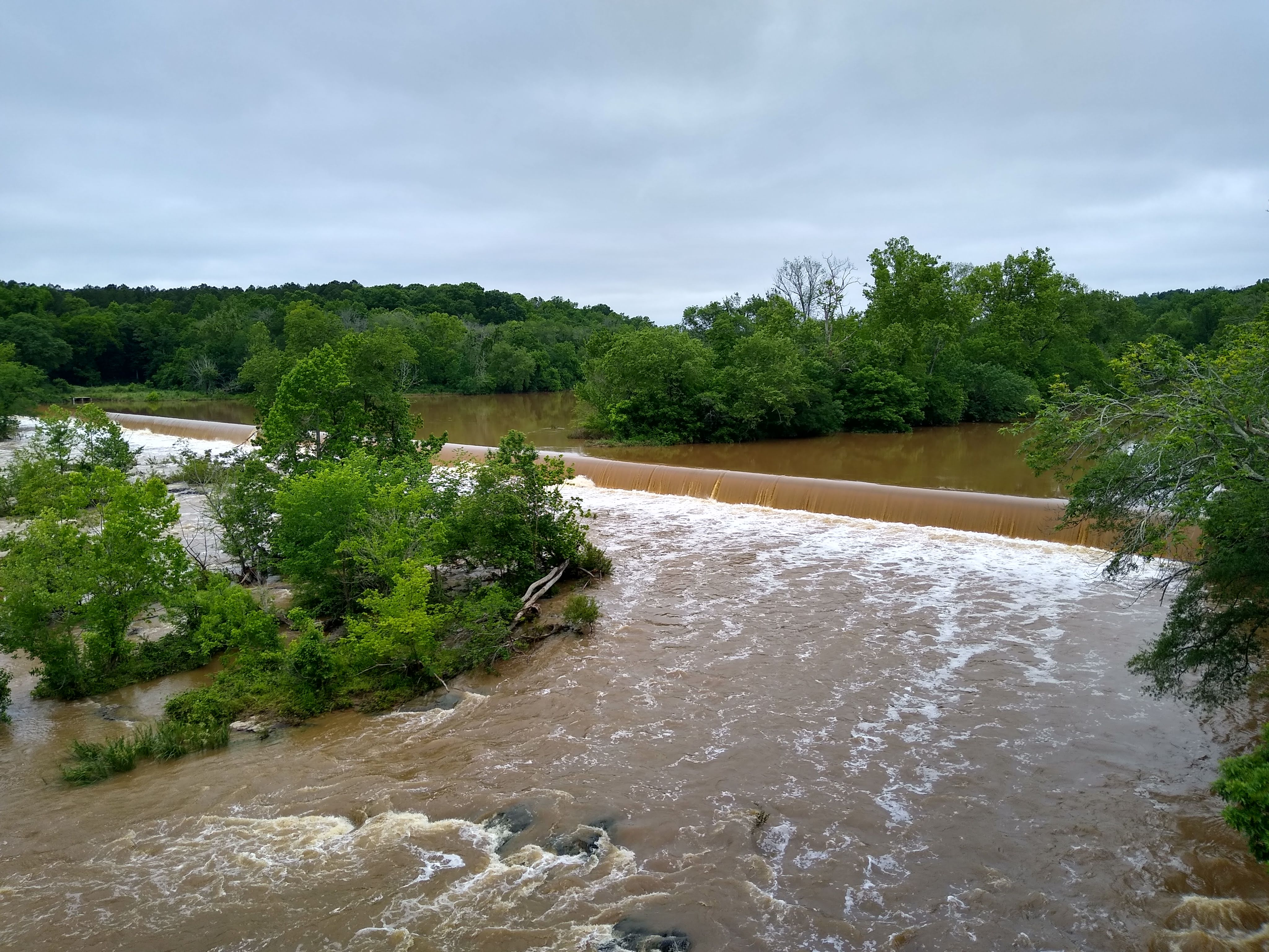 The water of the Haw River is higher than usual and is flowing over the dam in Bynum, North Carolina.